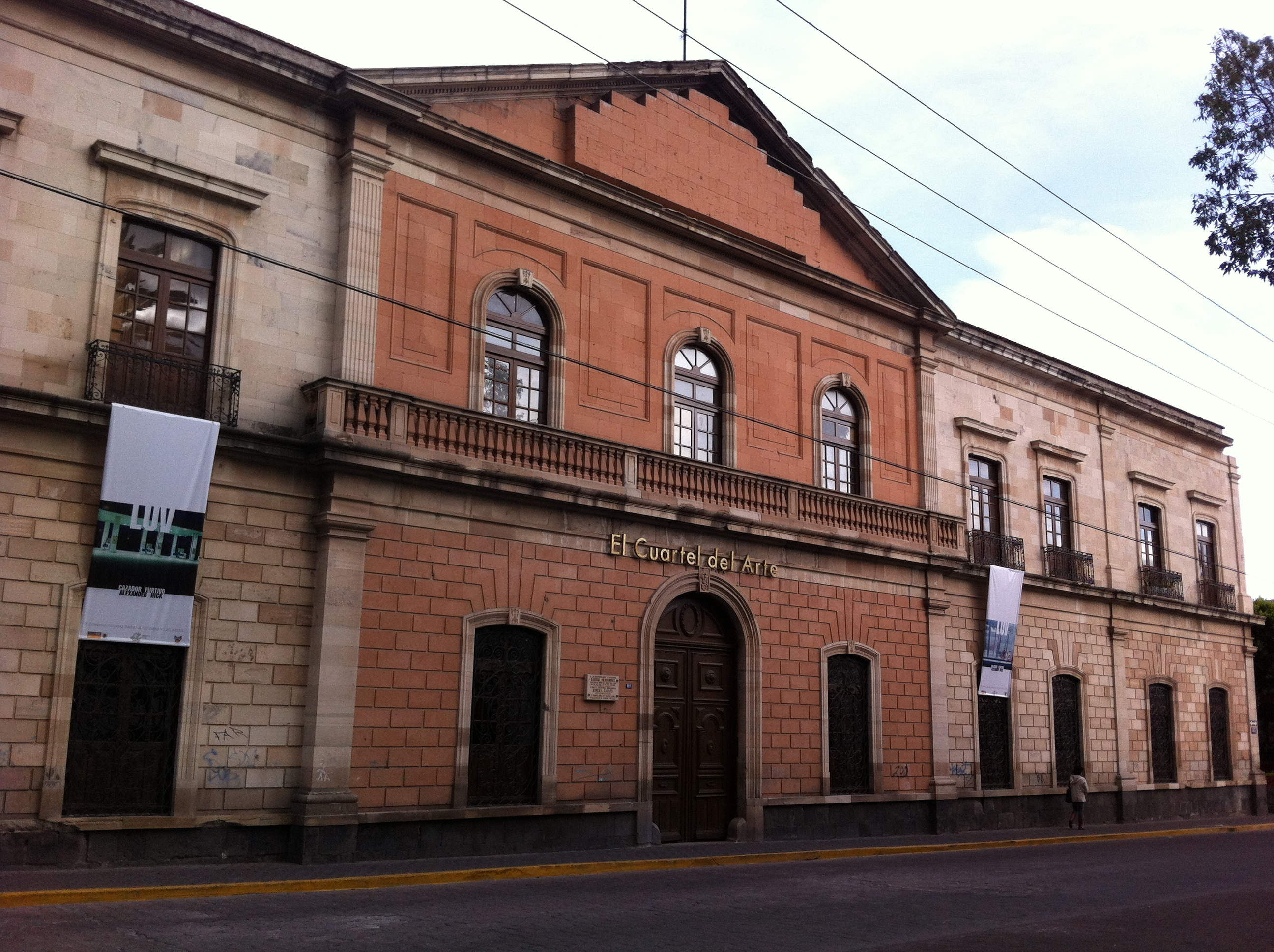 "Cuartel del Arte" art gallery, in the historic "Escuela de Minas" mining school building — in the Historic center of Pachuca district, state of Hidalgo, east-central México.